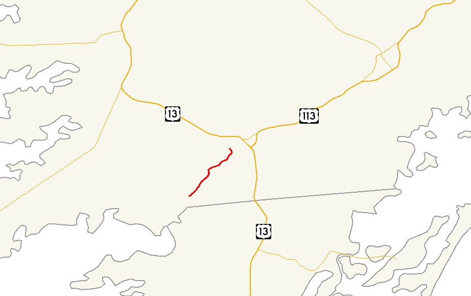 Map of Maryland 371